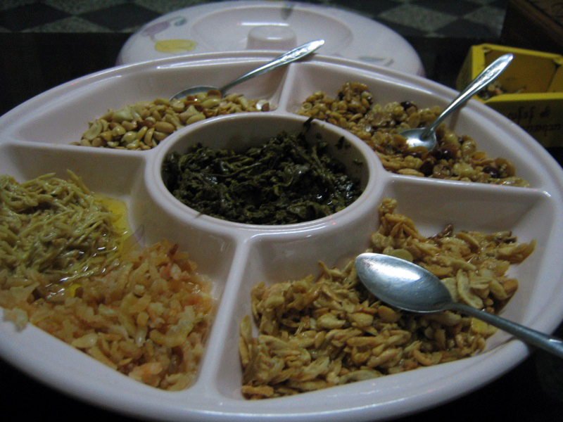 Pickled tea leaves salad